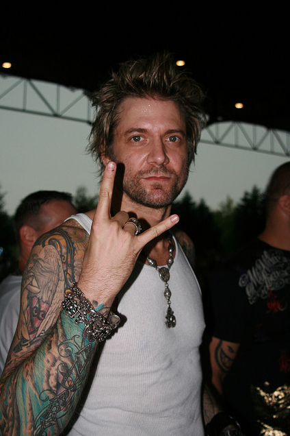 James Michael of Sixx:A.M. @ Crüe Fest